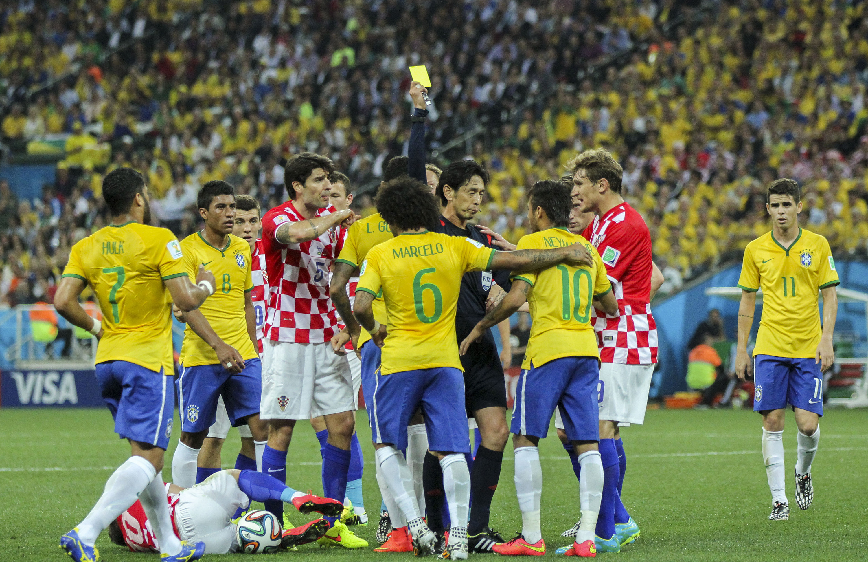 Brazil and Croatia match at the FIFA World Cup 2014-06-12